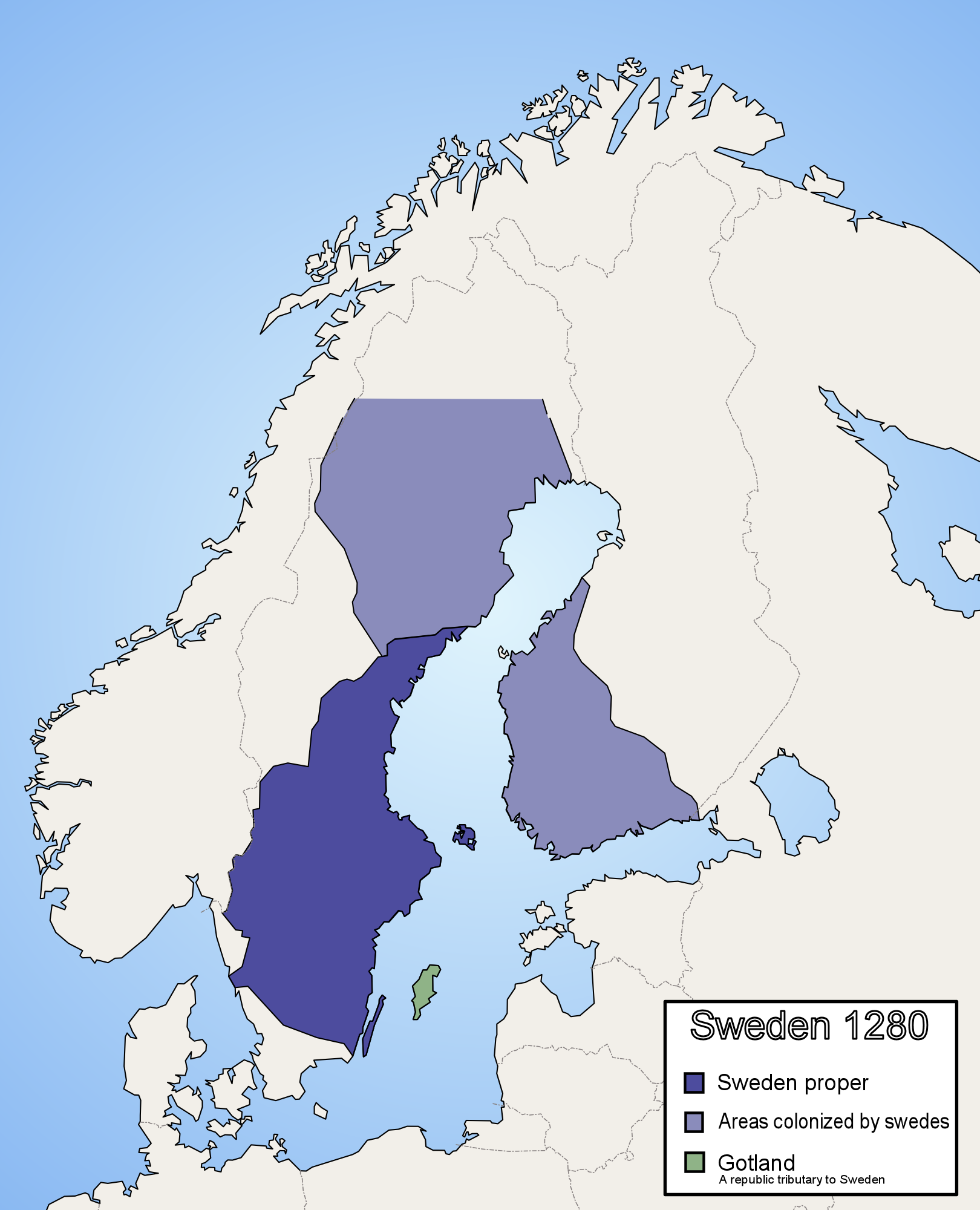 This is a map of Sweden around the year 1280. Incorrect. The colonialization of Lappland (inner northern Sweden) did not start until 1670, and Norrbotten coast until some time after 1330. Hälsingland had a loose connection to Sweden until 1331. Created by Ningyou